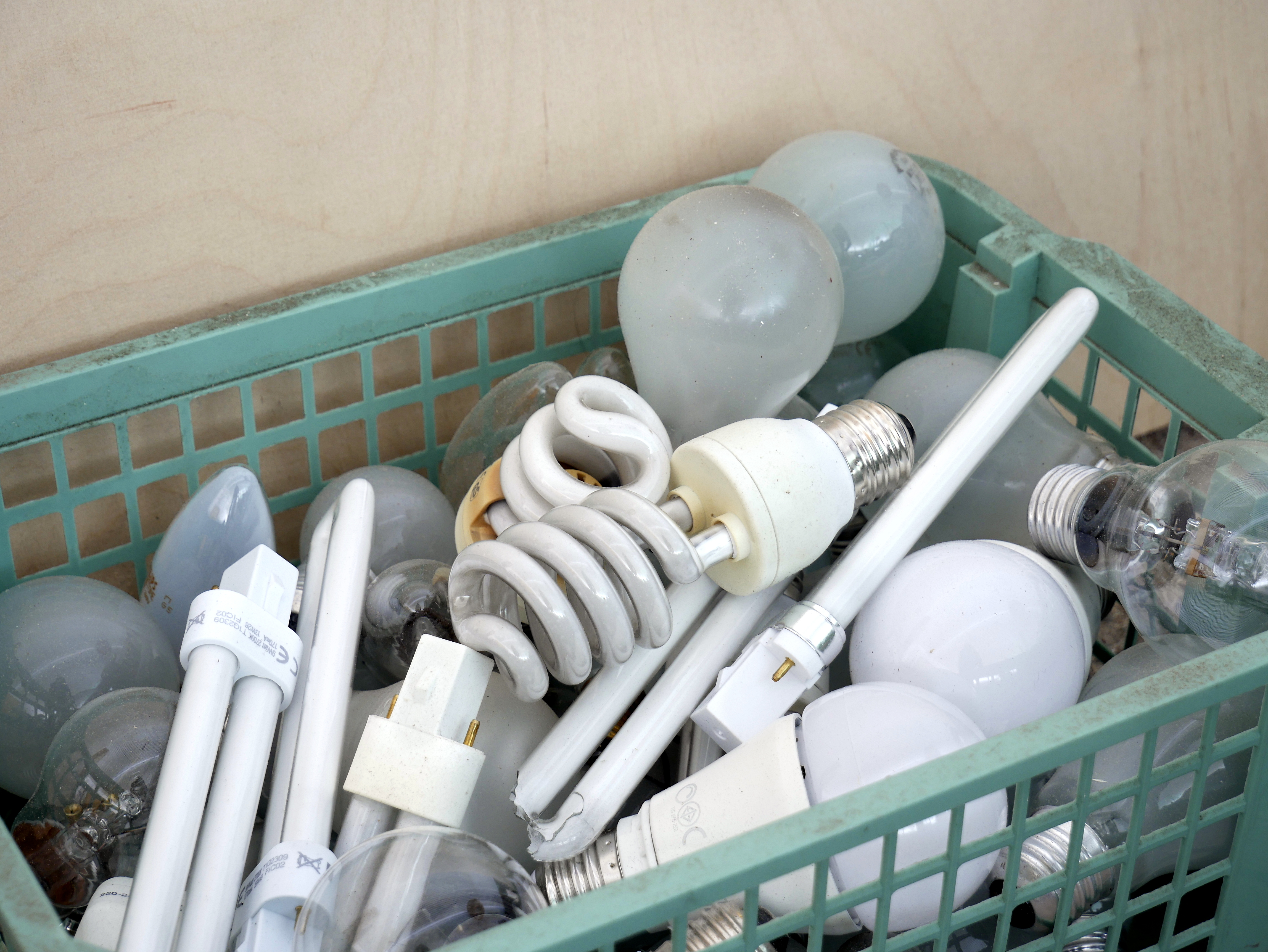 Light bulb waste.